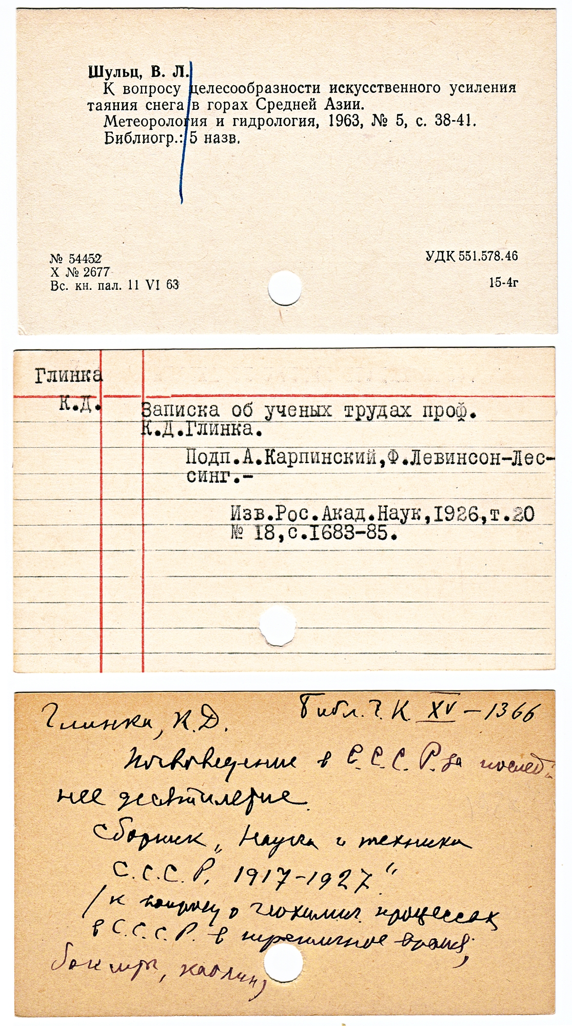 Bibliography cards in USSR